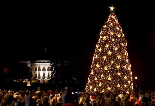 The National Christmas tree stands lit on the Ellipse in front of the White House on Thursday evening, Dec. 2, 2004. President George W. Bush and Laura Bush assisted Chantilly, Va., Girl Scout Brownies Clara Pitts and Nichole Mastracchio in lighting the 40-foot Colorado blue spruce. White House photo by Paul Morse. (Details)